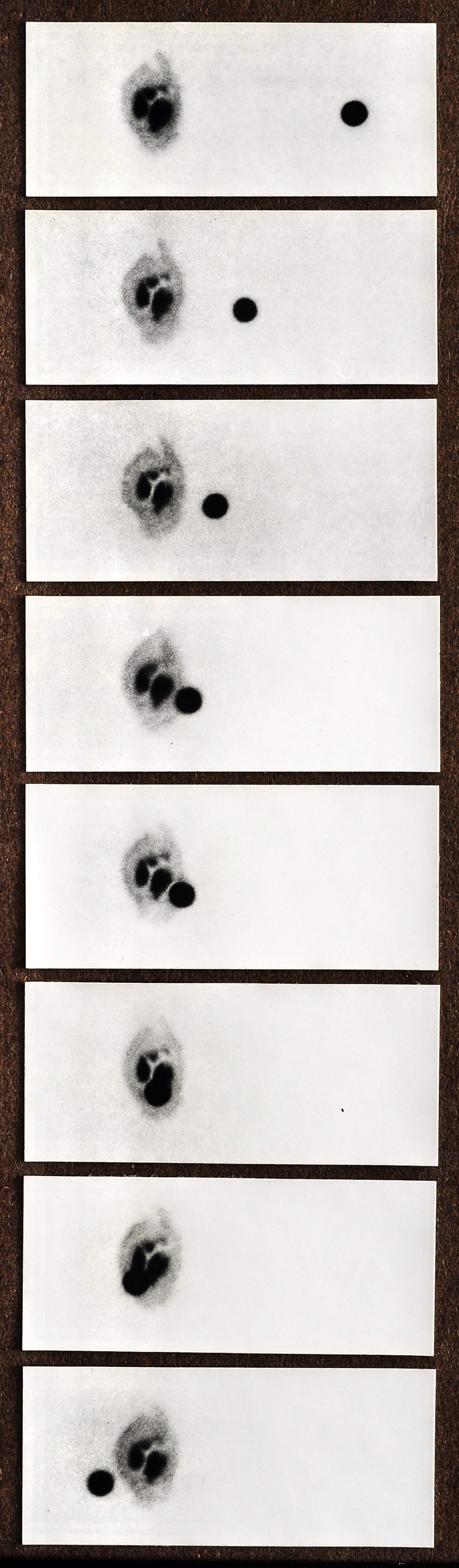 Sequence of Mercury's passage across a sunspot group. Made in Sicily, at the 5,700-foot Mount Aetna Station of Catania Observatory. Analog photography with a 3-inch finder of the 36-inch reflector. Planet and spot were closest at 11:08 UT.